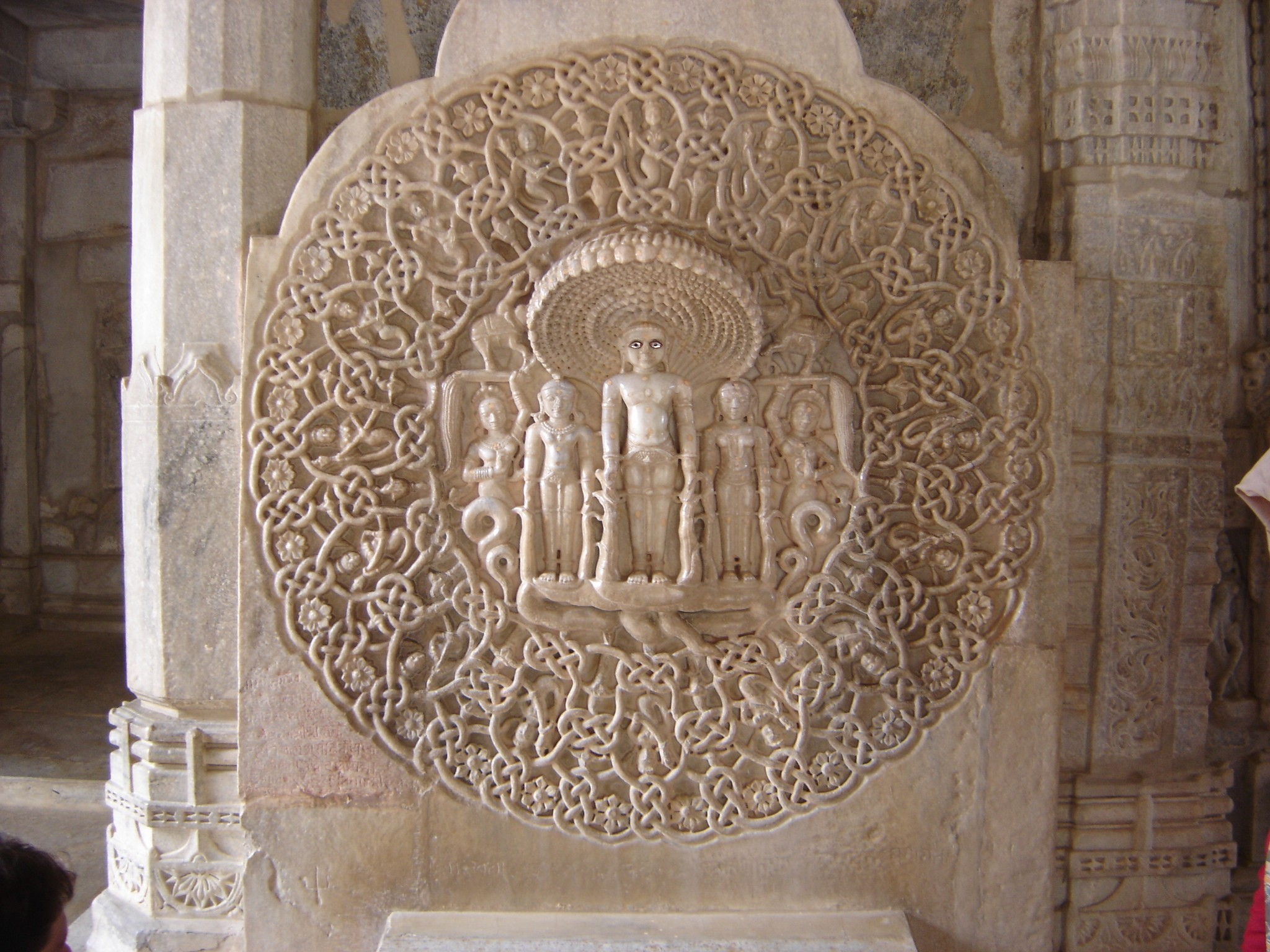 Relief depicting the tirthankara Parshvanatha (whose emblem is a serpent) at Ranakpur, Rajasthan, India.